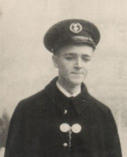 Guy Deniélou.